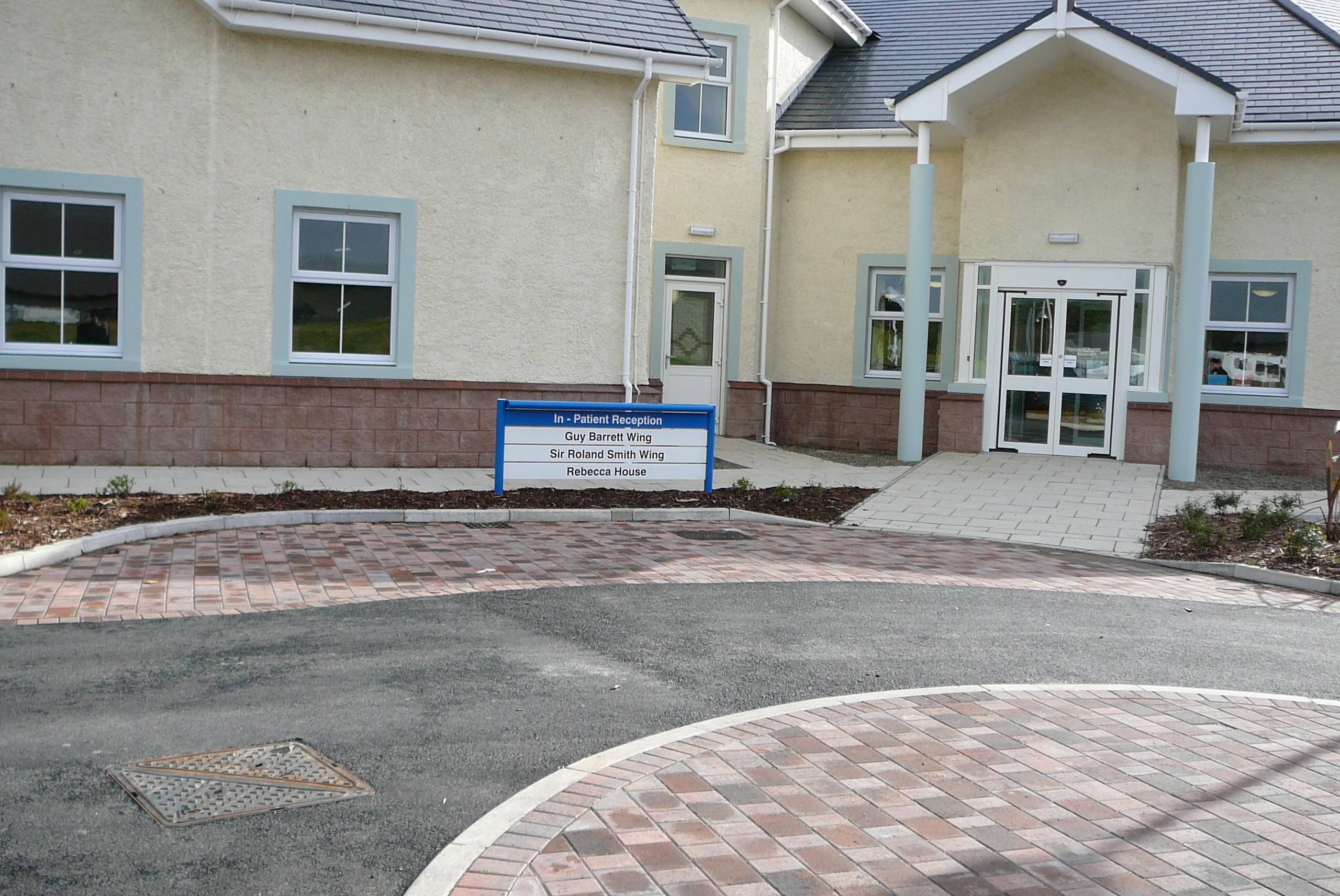 Front of Isle of Man Hospice In-Patient Reception sign and front of doors in 2007.